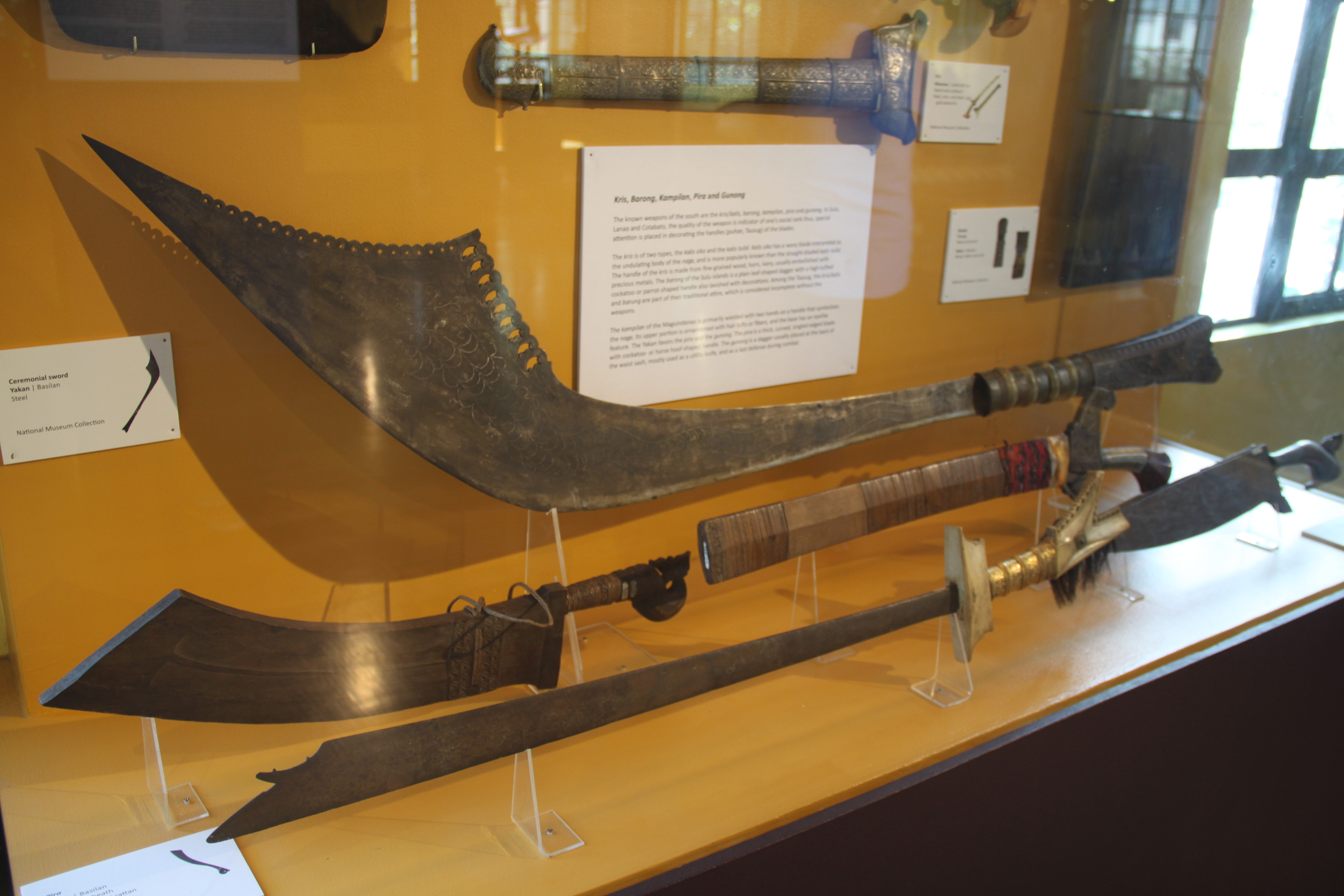 Bangsamoro and Lumad Cultures Gallery, Museum of the Filipino People, Rizal Park, Manila, Philippines. Complete indexed photo collection at .